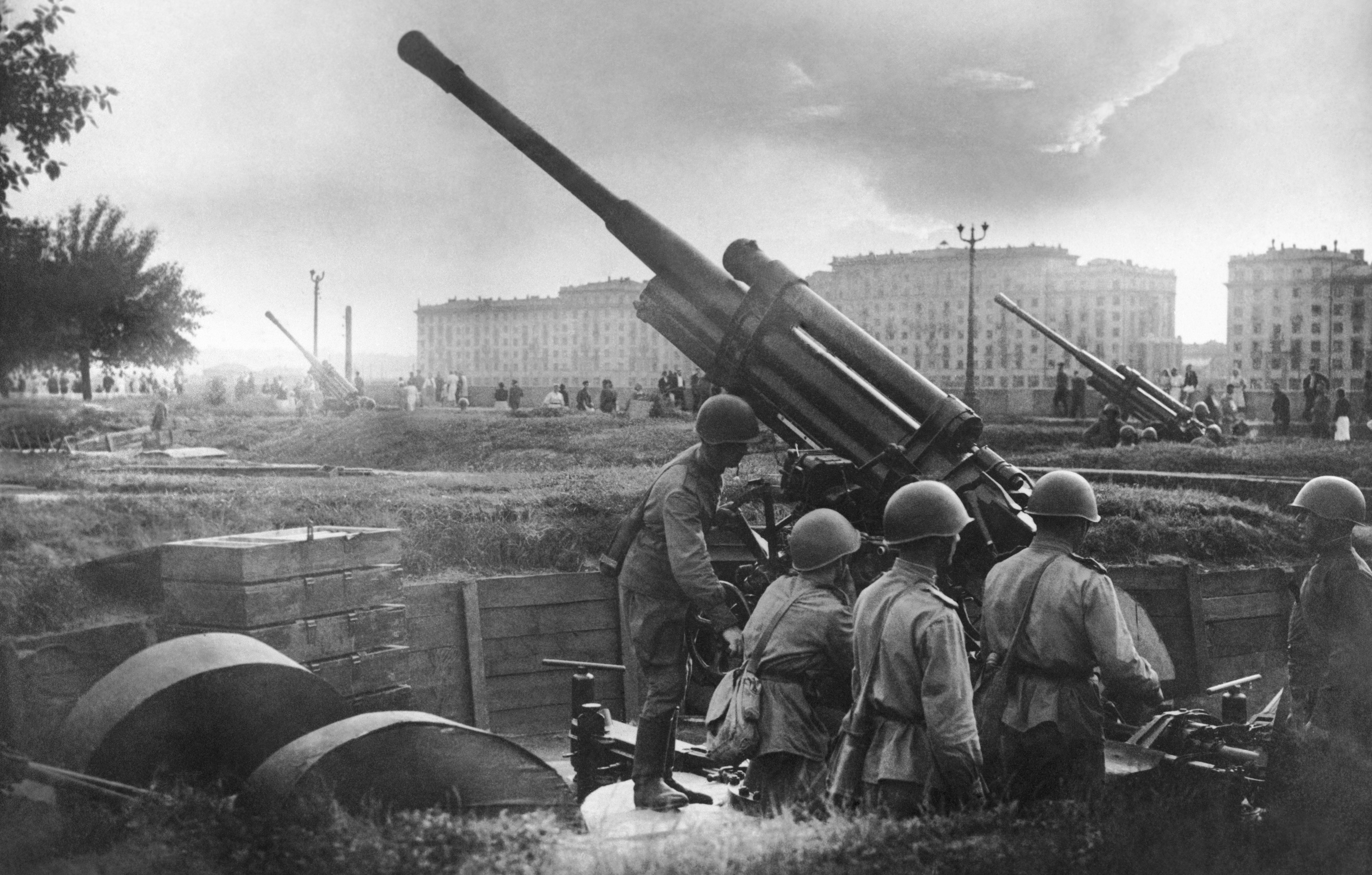 “Getting AAA guns ready”. Defenders of Moscow during the WWII years getting in the Gorky Park AAA guns ready for repelling a mock German air attack. The date seems to be incorrect because of presence of shoulder insignia introduced in 1943.